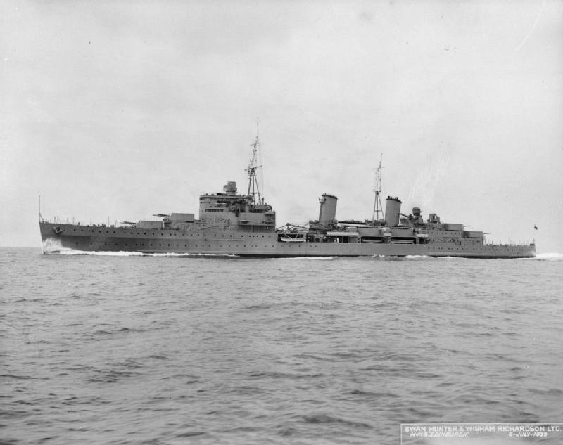 British cruiser HMS Edinburgh underway on contractors' sea trials